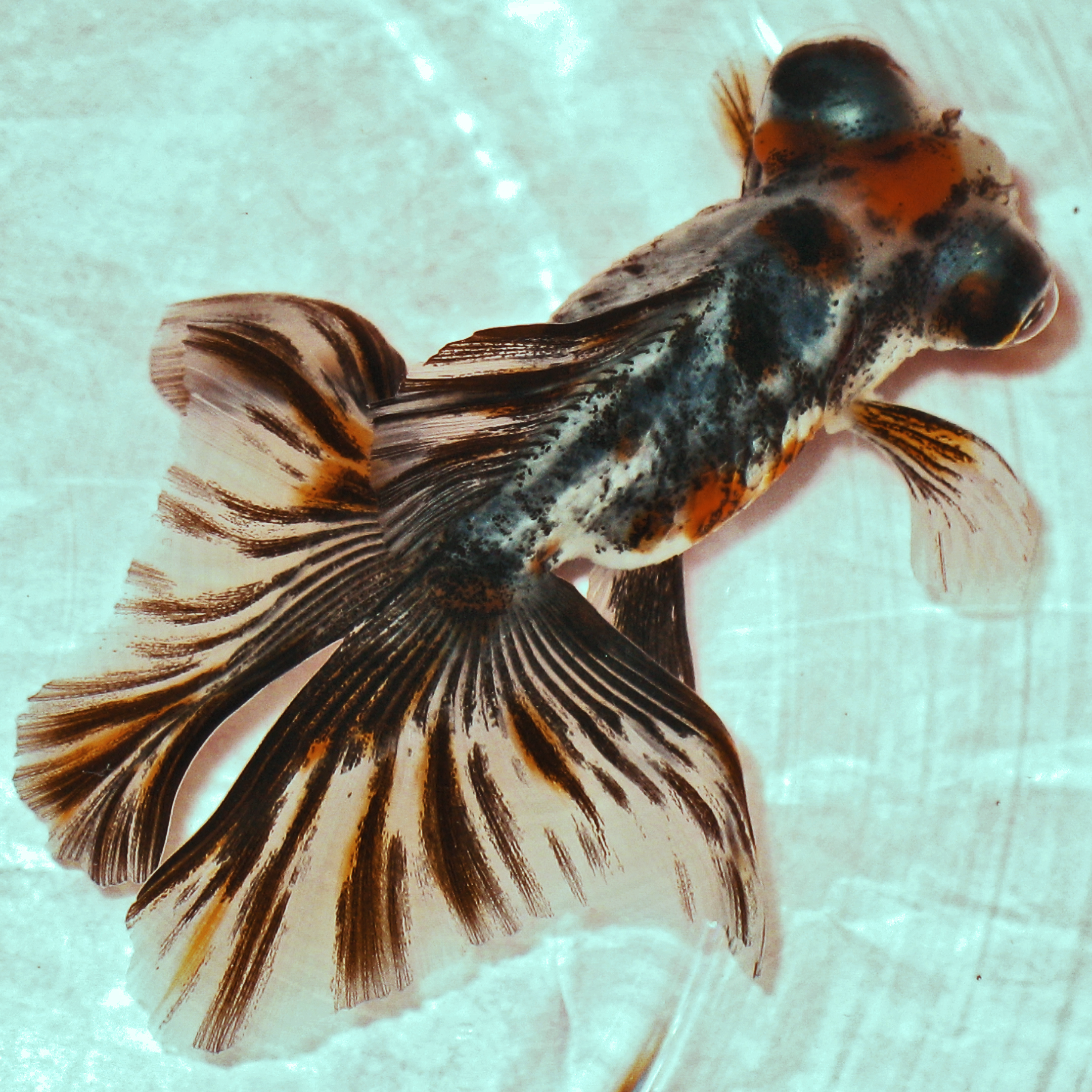 picture of a pet goldfish. specifically it is a butterfly tail telescope eye goldfish